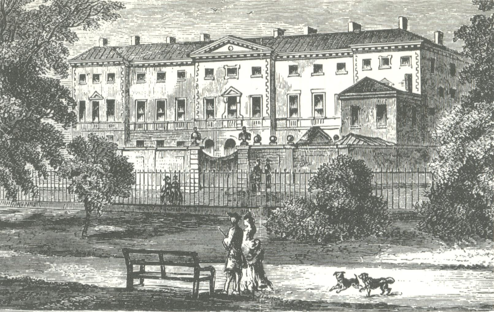 Devonshire House, in c.1800